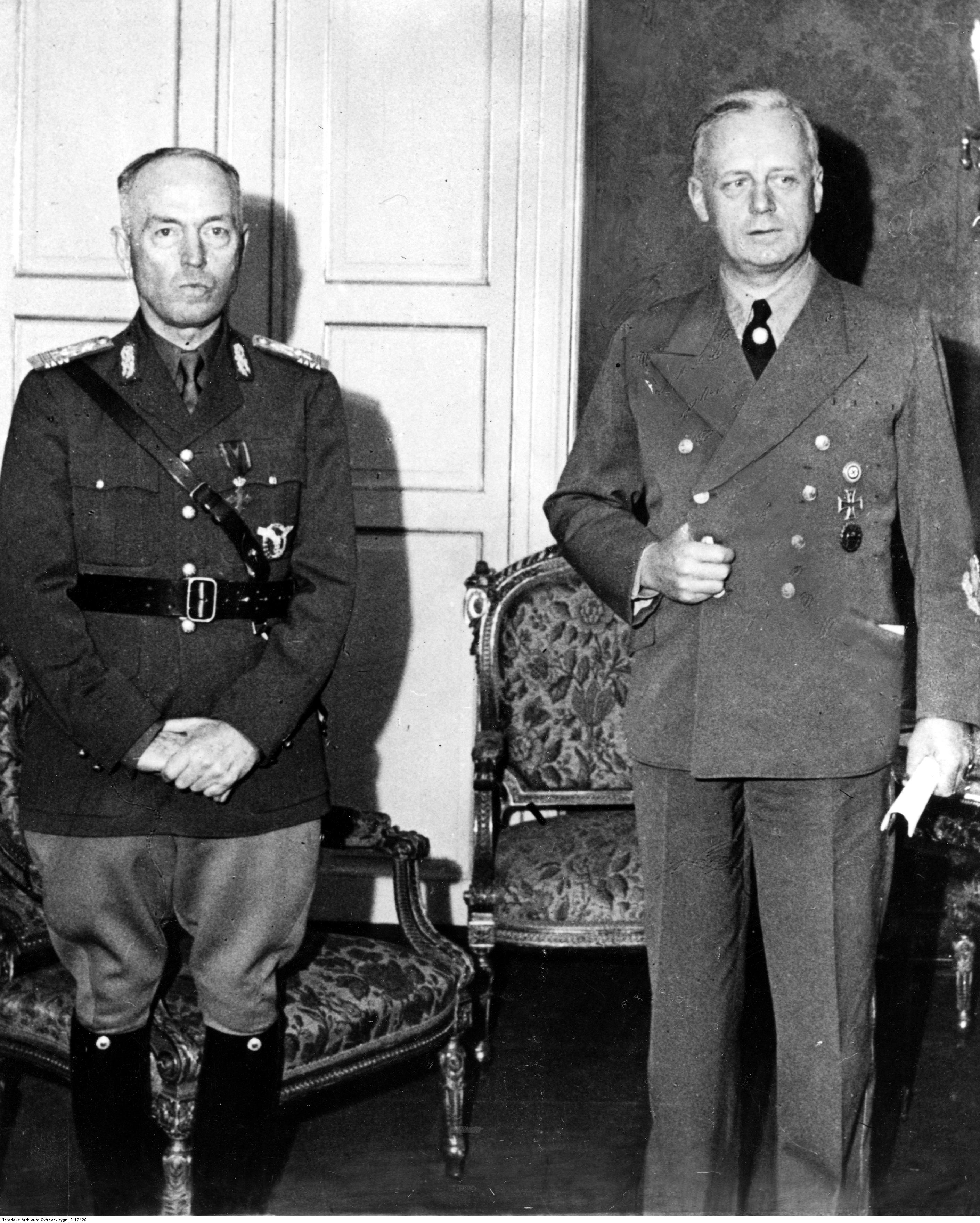 Foreign Minister of the Third Reich Joachim von Ribbentrop (right) and Romanian leader Ion Antonescu at the time of the party.